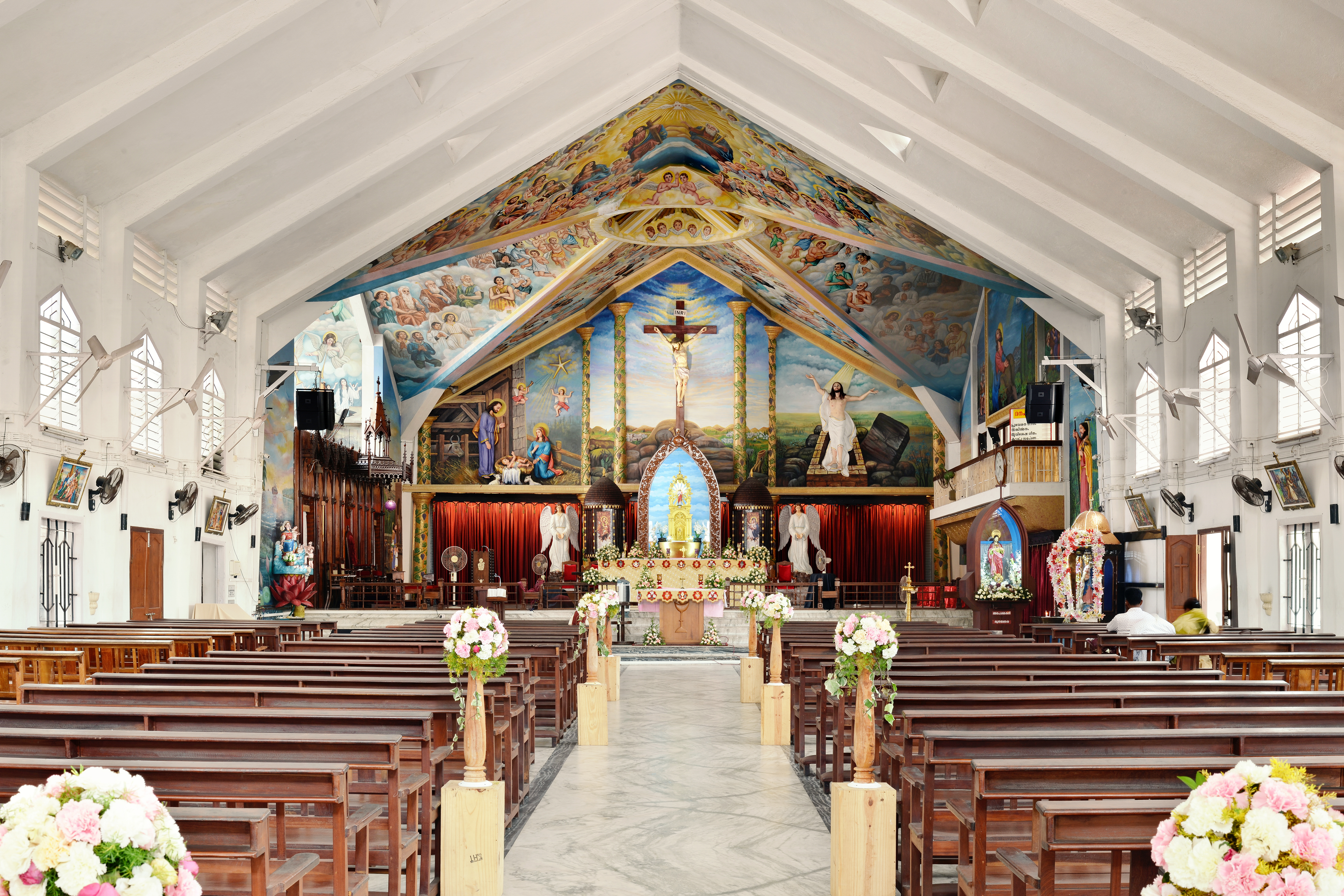 St. Mary's Syro-Malabar Cathedral Basilica, Ernakulam by Augustus Binu